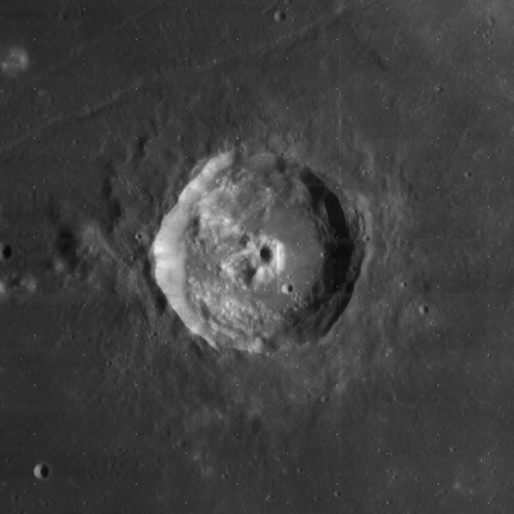 Plinius, on the moon.